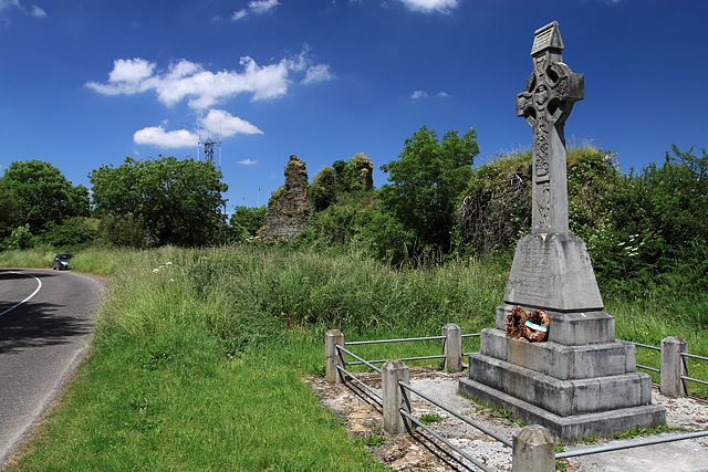 Mourne Abbey Ruins etc. One might think that this was a typical Irish odd juxtaposition of telecommunications mast, ancient abbey ruins, and War of Independence memorial. The abbey came first of course, Mourne Abbey was built in the early 1200s by the Knights Hospitallers, its ruins now almost obscured by encroaching ivy. The parish of Mourne Abbey also played a major role in the Irish War of Independence. A failed ambush of British forces occurred near the Abbey where eight volunteers lost their lives. Tomás MacCurtain, former Lord Mayor of Cork who was murdered by the Royal Irish Constabulary in 1920, was also from the parish of Mourne Abbey, and is among those commemorated on the roadside memorial. Why the telecommunications mast? I've no idea!